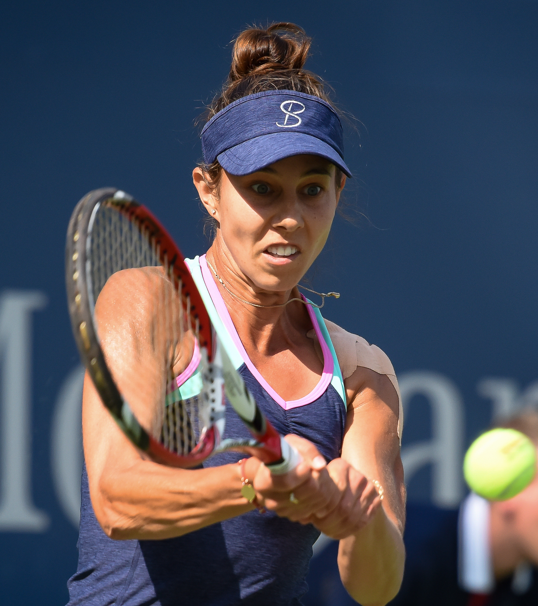 August 24, 2017, Court 4, Flushing, NY; Mihaela Buzarnescu.